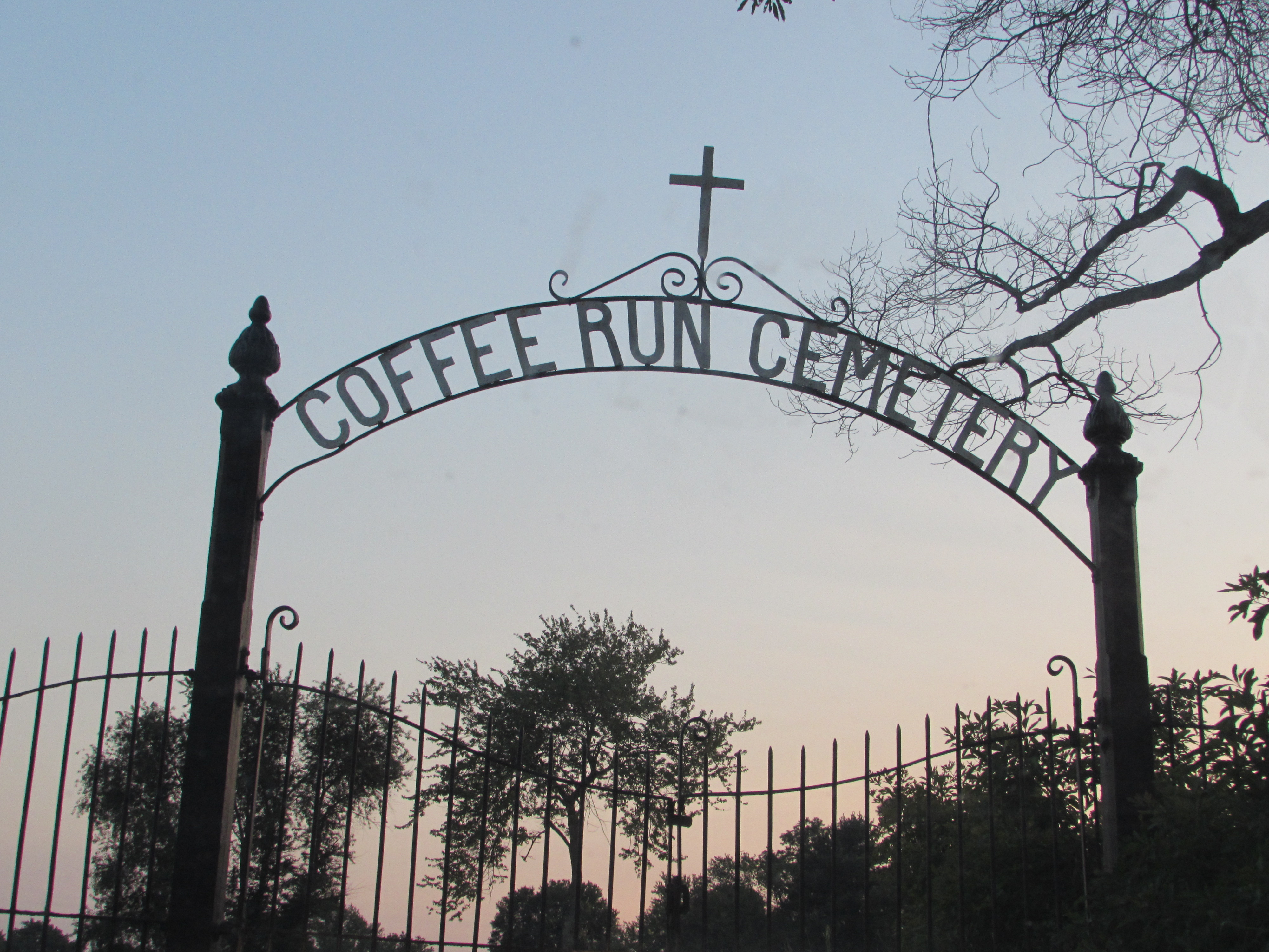 Ornamental iron gates at the Coffee Run Cemetery, a contributing property to the Coffee Run Mission Site on the National Register of Historic Places in Hockessin, Delaware. This was the site of the first Roman Catholic church in Delaware and the cemetery is still owned by the Diocese of Wilmington.